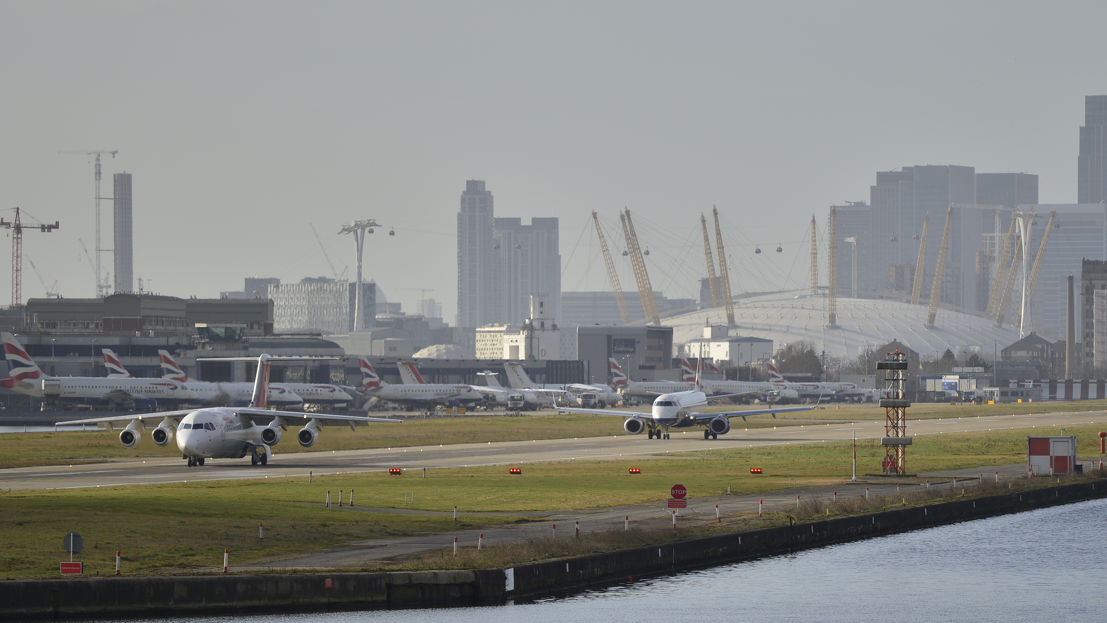 BA City Flyer Embraer & Swiss Avro RJ 85